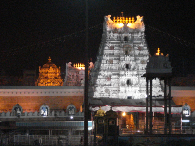 A view of the Sreevari Temple located on the Seshachalam Hills,Tirupathi,India